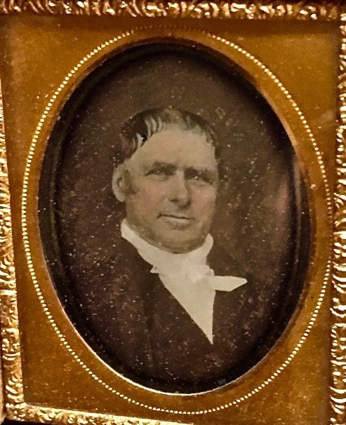 Virginia Quaker abolitionist, map maker, nurseryman, postal carrier